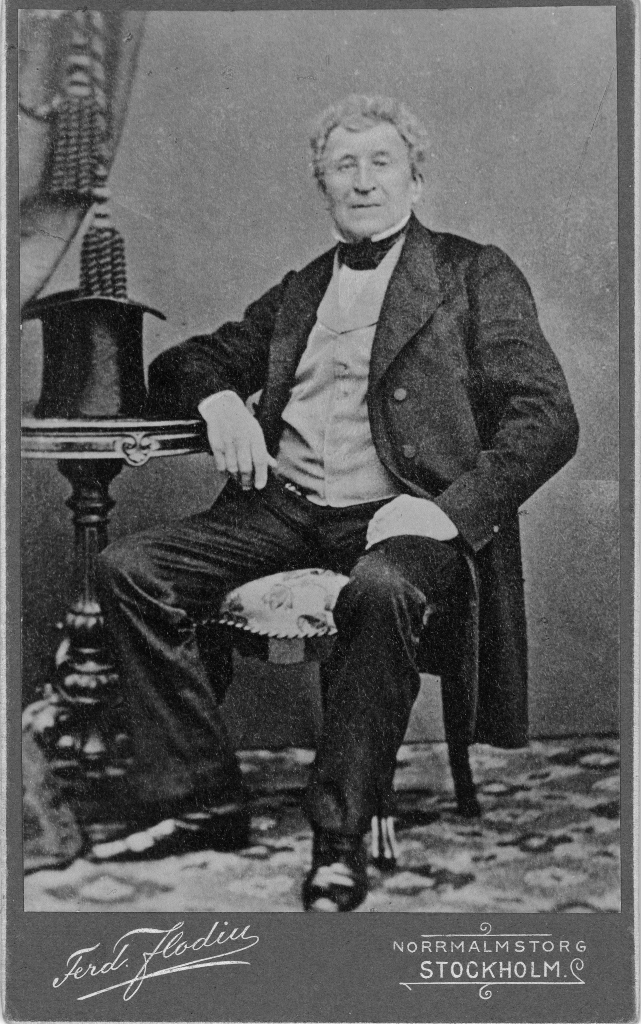 Erik Adolf Zethelius 1781-1864